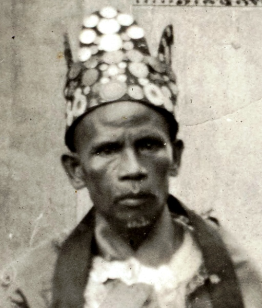 "Papa Isio" (Isio the Pope), born Dionisio Magbuelas, in a prison in Bacolod City in 1907. Isio was a religious leader who led anti-colonial uprisings in Negros in 1896. He became the military chief of the municipality of La Castellana under the Cantonal Government of Negros in November 1898. He also fought the American colonizers in 1899-1907. He surrendered on August 6, 1907, and died at the Manila Bilibid Prison in 1911. Hiligaynon: Si "Papa Isio", (natawo bilang Dionisio Magbuelas), samtang nakahunong sa daan nga prisohan sang siyudad sang Bacolod sa isla sang Negros tuig 1907. Si Isio isa ka lider sang mga babaylan nga nag pakigbato kontra sa mga Katsila tuig 1896. Siya naging lider hangaway sang banwa sang La Castellana sa idalom sang Repulika sang Negros sang Nobyembre 1898. Siya nag pakigbato man sa mga Amerikano sa sulod sang mga tinu-ig 1899-1907. Siya nag sungka sang Agosto 6 tuig 1907, kag napatay sa prisohan sang Bilibid sa Manila tuig 1911.